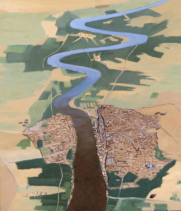 Baghdad, 1919 image: An aerial view of Baghdad from an aircraft. The city lies on either side of the wide and meandering Tigris river, which has dark green fields at its banks. The surrounding land appears more arid.